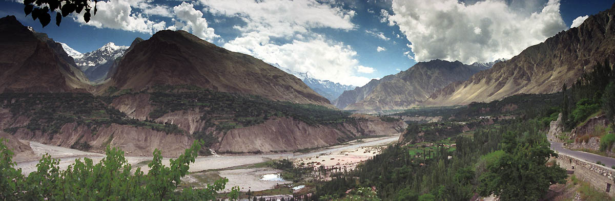 Hunza Valley viewed from the village of Karimabad, Northern Area, Pakistan